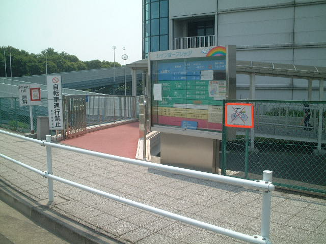 Rainbow Bridge Promenade (Shibaura-side entrance) (per Google translate)